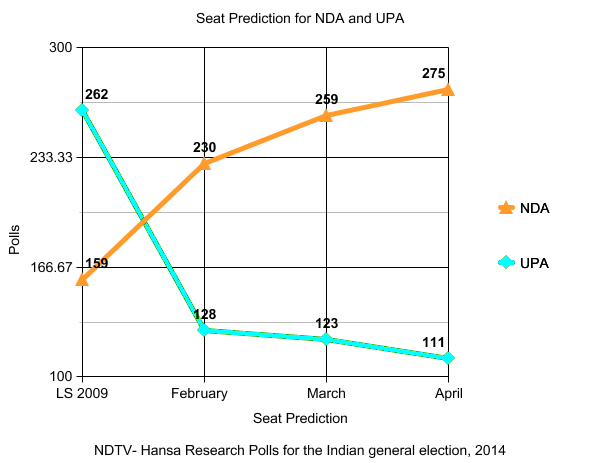 NDTV- Hansa Research Polls for the Indian general election, 2014-Seat Predictions.png is a graph showing Seat Predictions for the election as researched in opinion polls using [1].